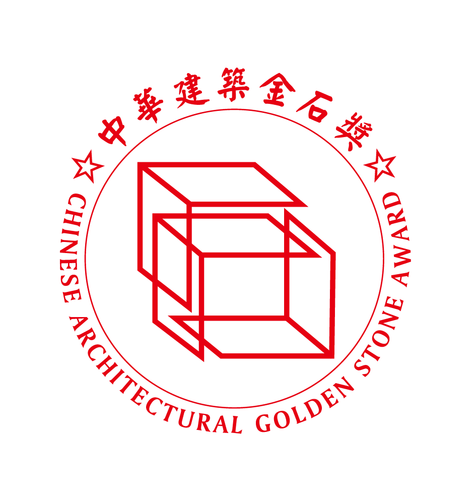 Chinese Architectural Golden Stone Award-Logo